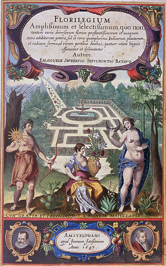 Emanuel Sweerts: Florilegium. 1647 - Titelpage